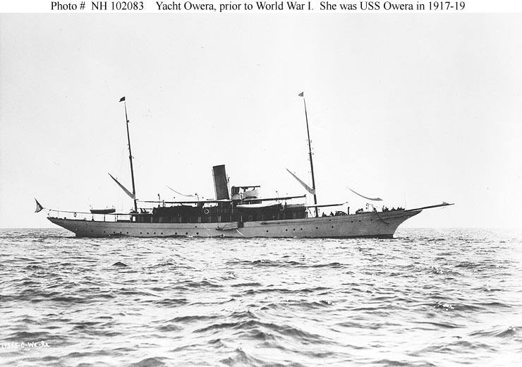 Civilian yacht Owera prior to her United States Navy service as patrol vessel US Owera (SP-167)